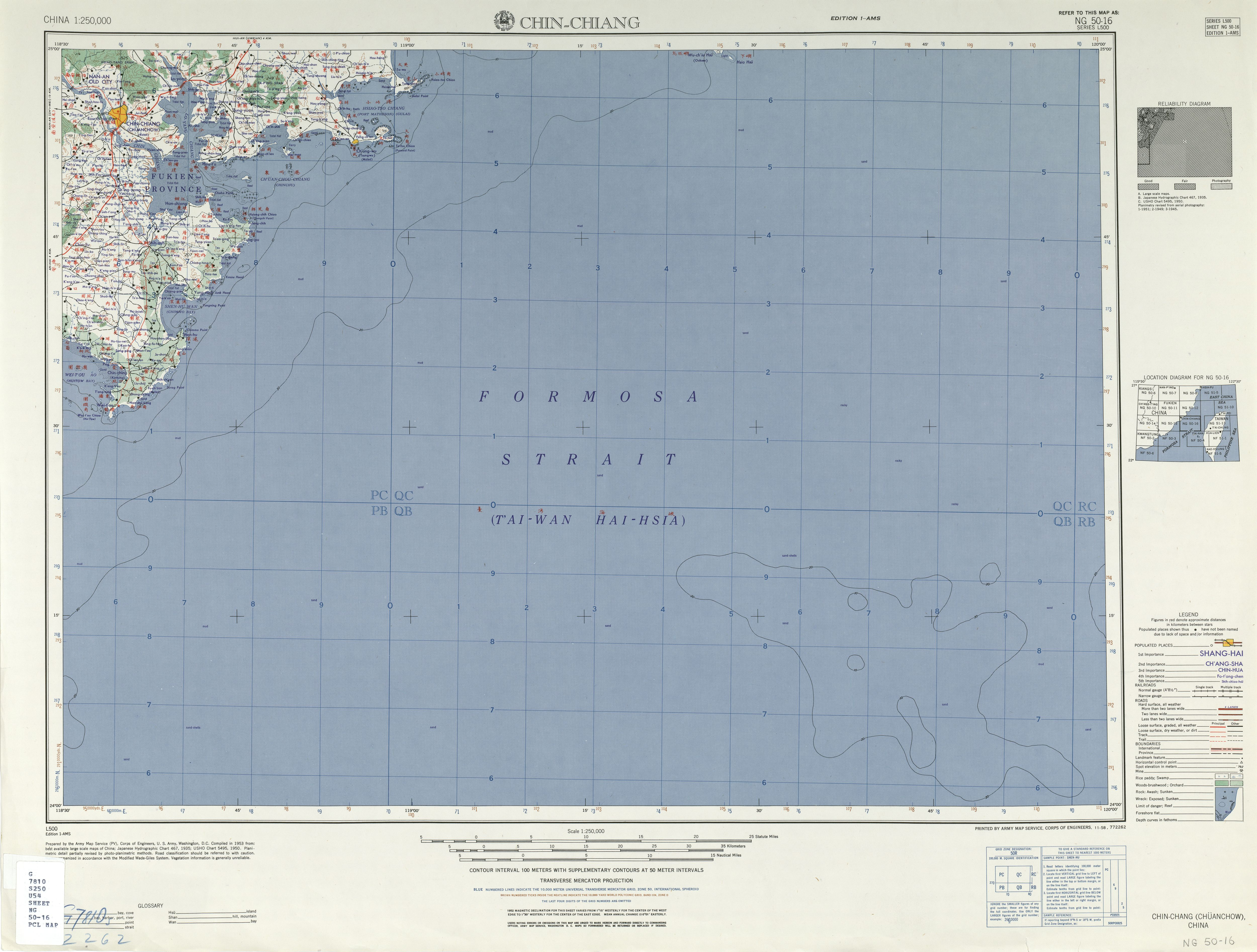 Map of Jinjiang, Fujian (Chin-chiang) including Wuqiu Township (Wu-ch'iu, Ockseu), Kinmen County, Taiwan (ROC) (1954) (Note: Beiding Island was apparently omitted from this map.)